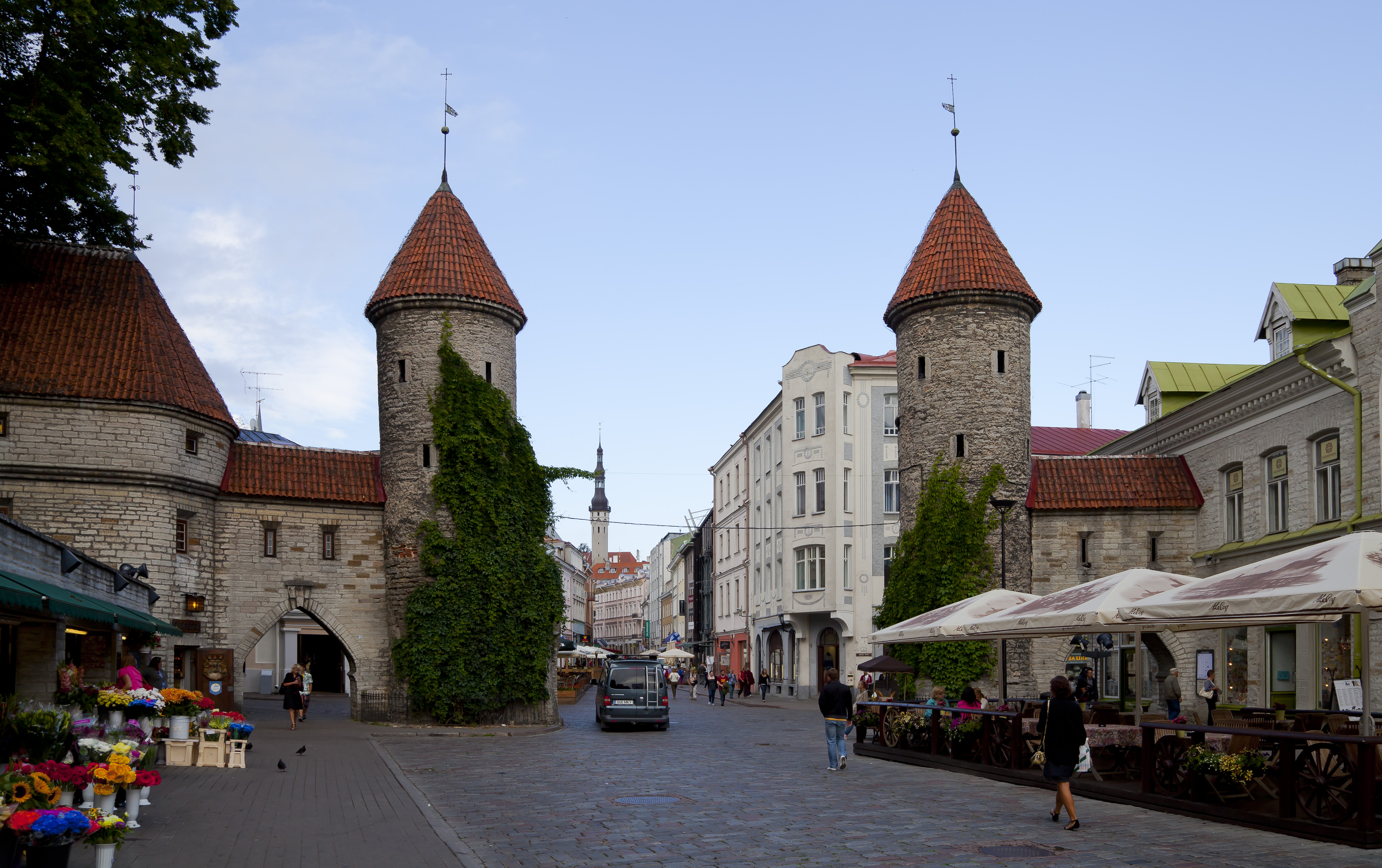 Viru Gate, Tallinn, Estonia